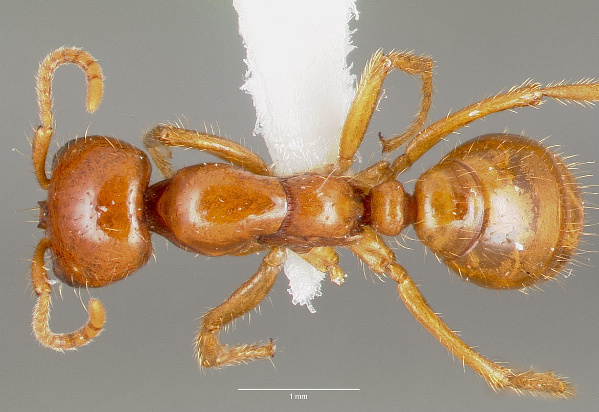 Dorsal view of ant Cheliomyrmex morosus specimen casent0003202.